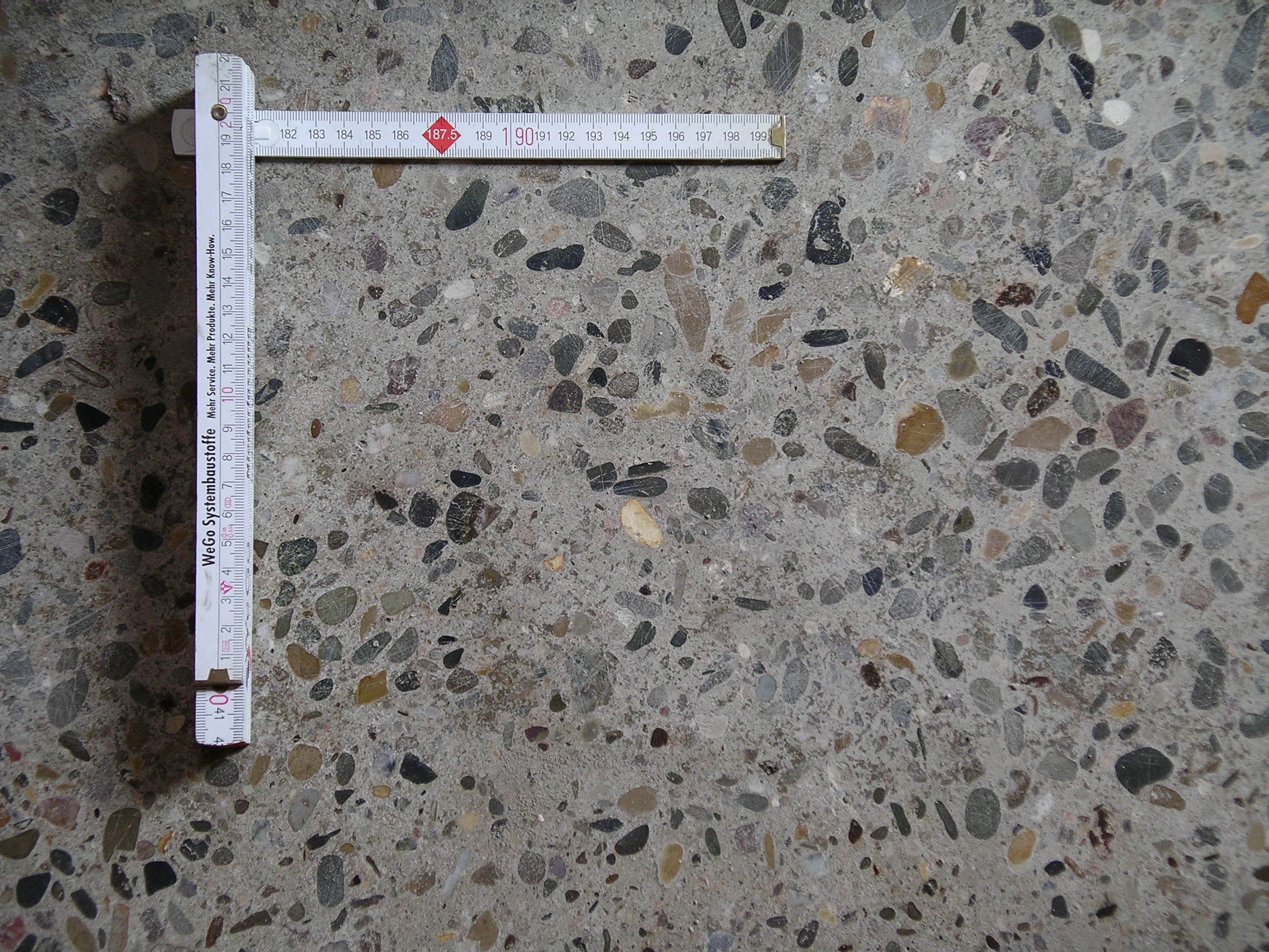 Aged concrete paving tiles, milled with diamond mill and sealed with synthetic material. Scale with centimeter units provided.